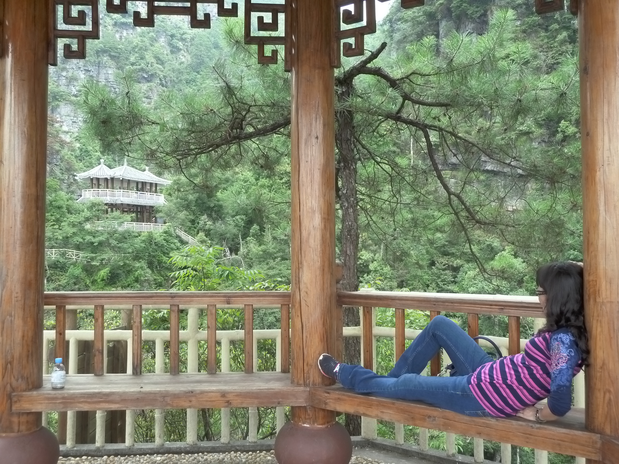 Super views